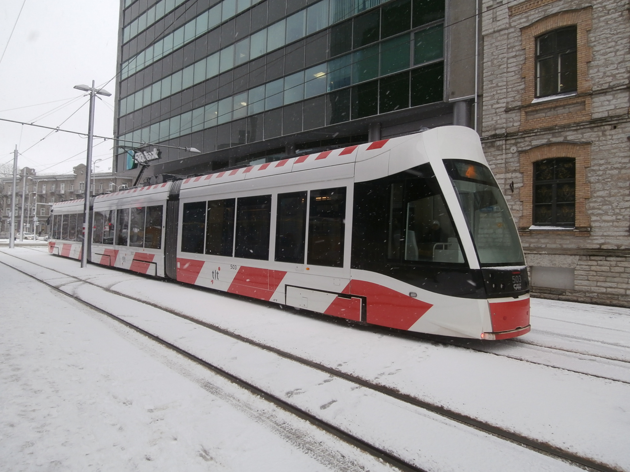 Tram 503 at Bigbank Tartu maantee Tallinn 5 February 2016